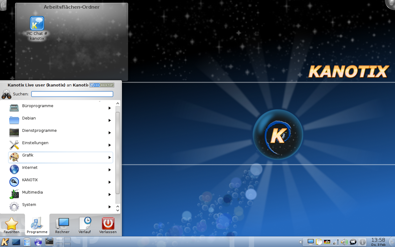 screenshot Desktop default artwork "kanotix-starrise" of Kanotix-hellfire (2011)